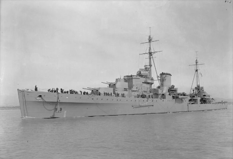 British light cruiser HMS ORION underway after completion of a refit at Mare Island Naval Shipyard, California, USA.